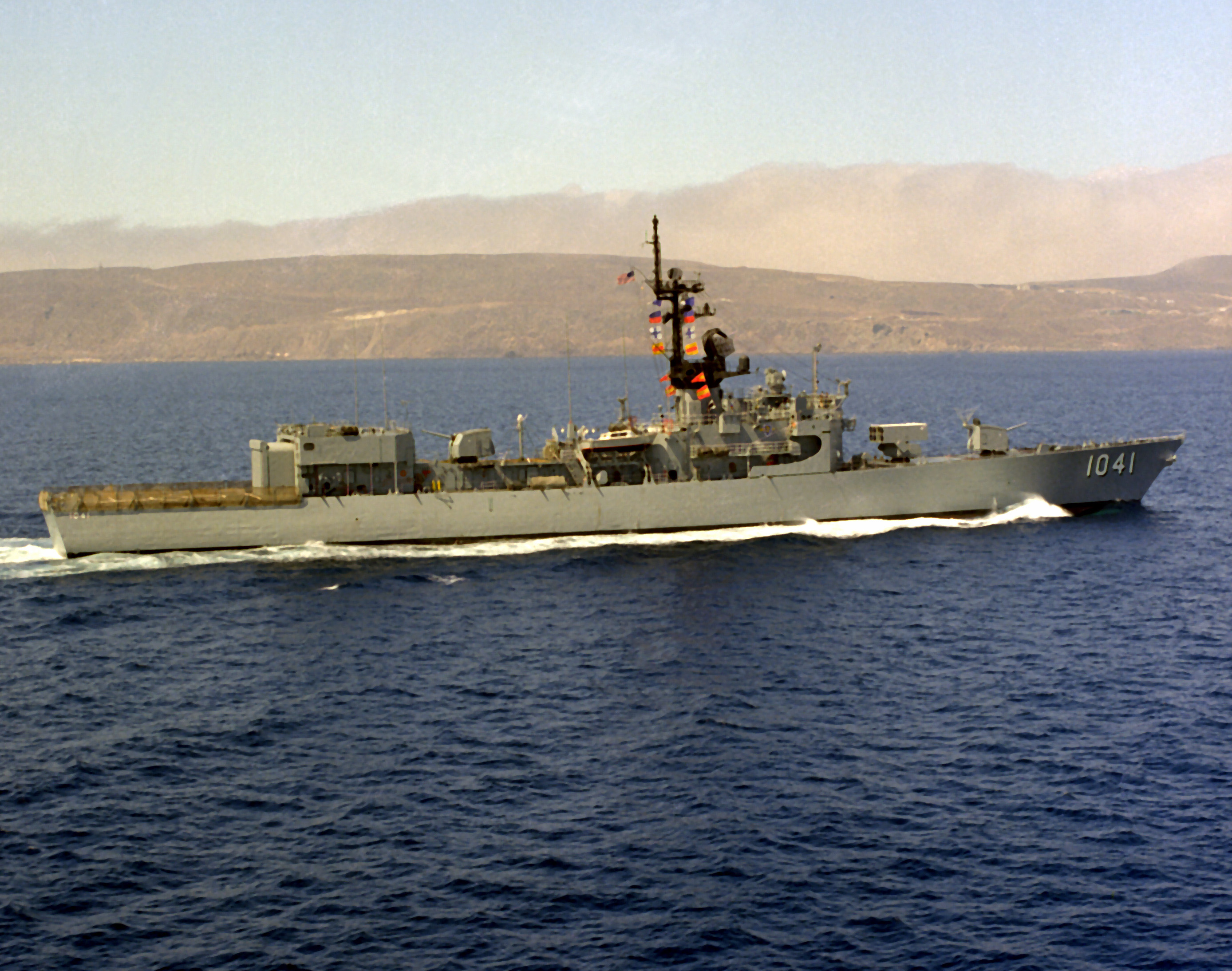 An aerial starboard beam view of the U.S. Navy frigate USS Bradley (FF-1041) underway near San Clemente Island, California (USA), on 8 July 1976.